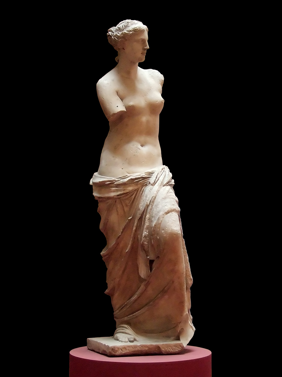 Aphrodite of Milos (Venus de Milo) at the Louvre. Distracting background masked out and levels adjusted. Fuji F11 Camera at ISO 1600.